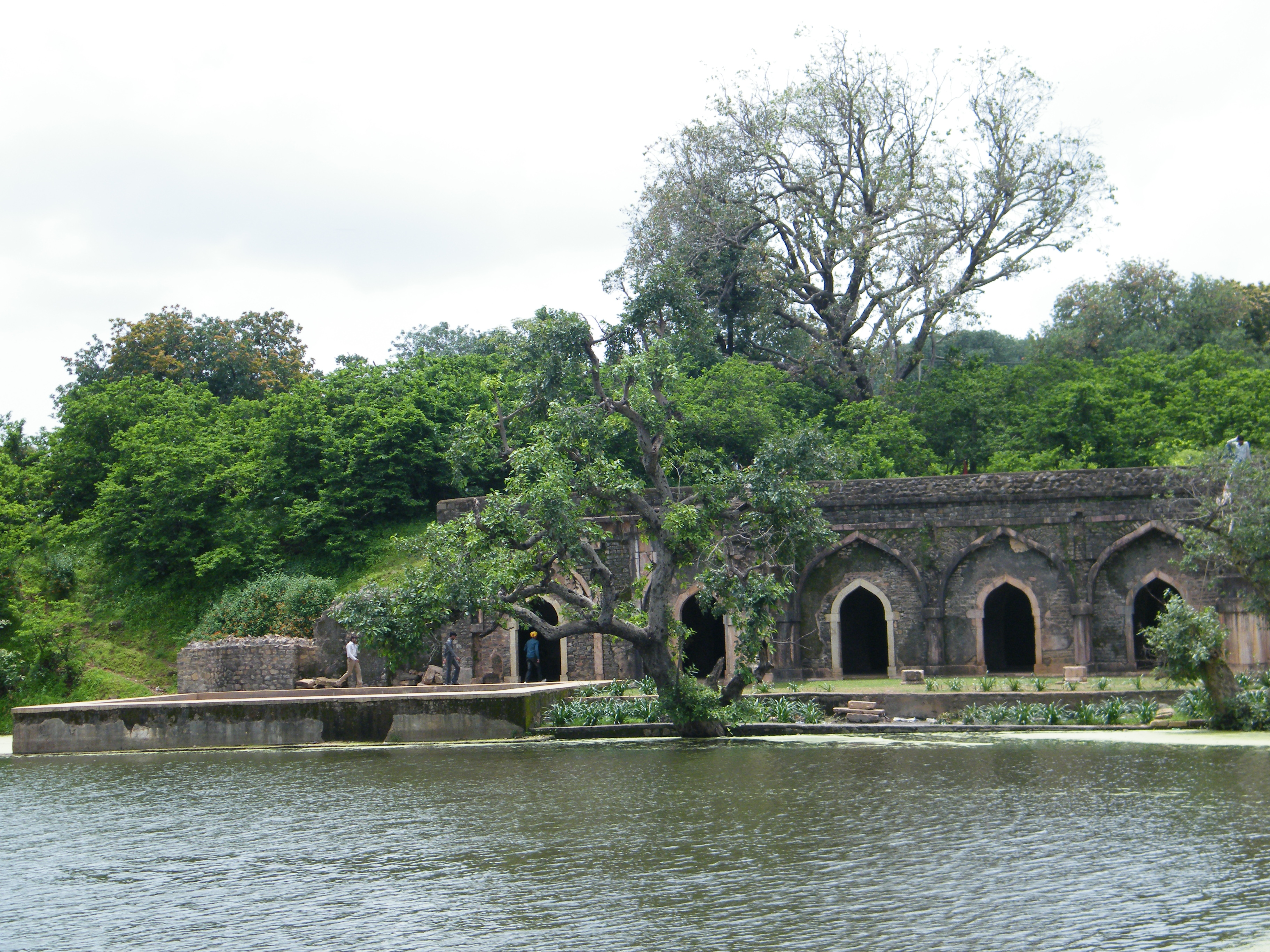 Rewa Kund - the reservoir constructed by Baz Bahadur for the purpose of supplying water to his love interest's palace Roopmati's pavilion